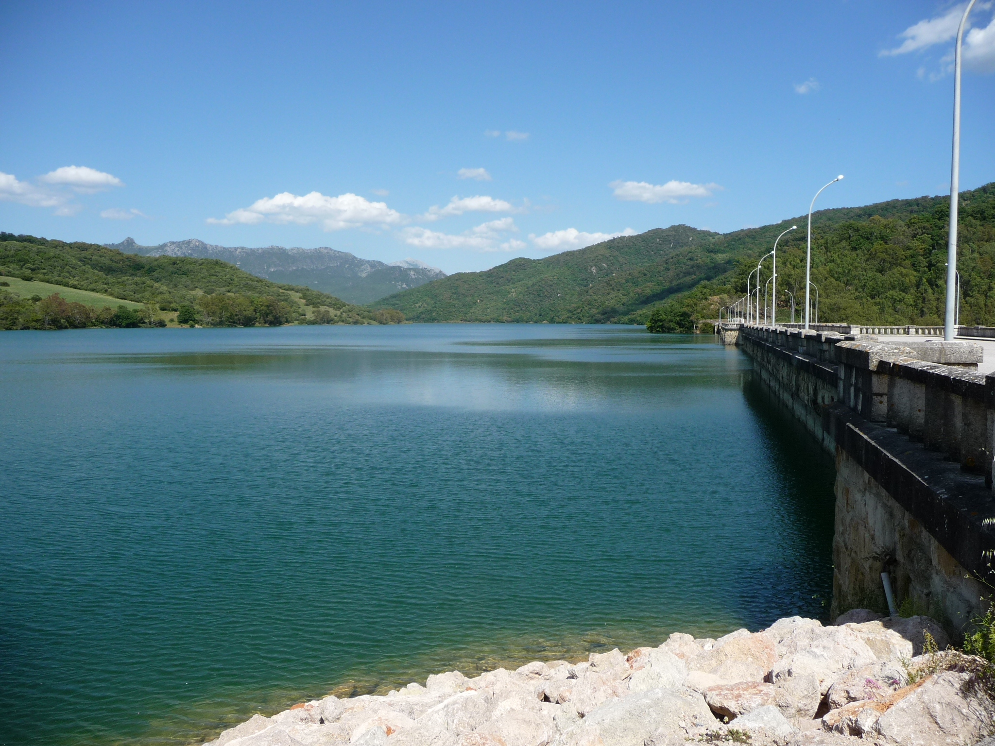 Los Hurones man-made lake (Jerez, Andalusia)